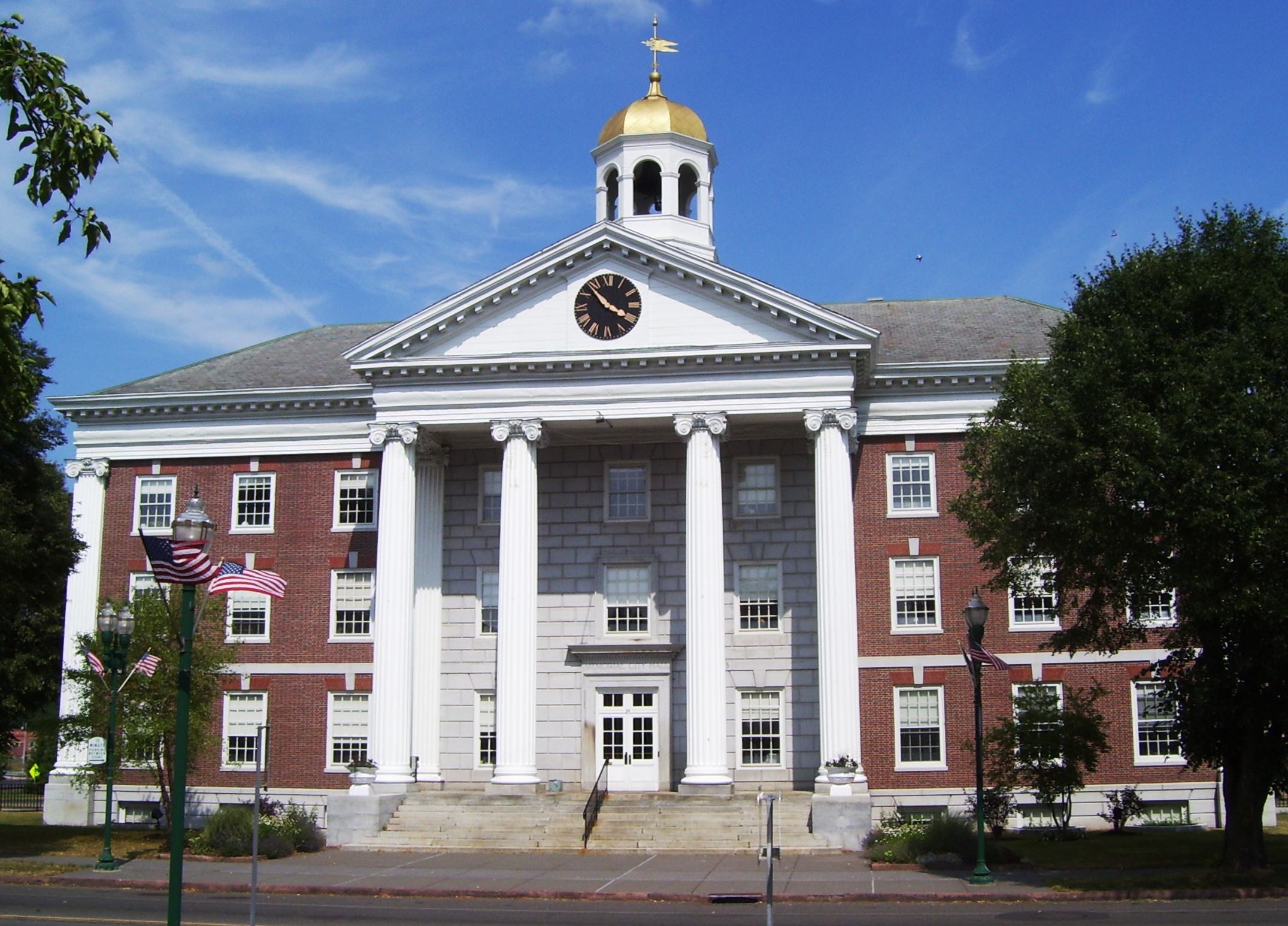 Memorial City Hall at 24 South Street at the corner of Lincoln Street in Auburn, New York, was built in 1929-30, and was designed by the firm of Coolidge, Shepley, Bulfinch, and Abbot in the Colonial Revival style. It is a contributing property within the South Street Historic District. (Sources: [1], [2])